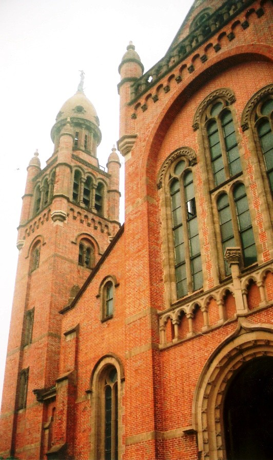 the basilica of our lady of sheshan, shanghai. picture taken by me.